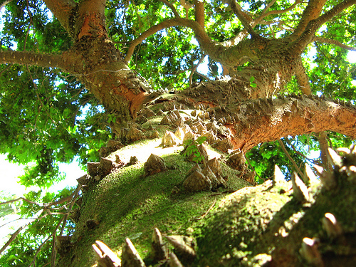 brazilwood trunk in botanical garden, sao paulo brazil